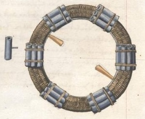 Depiction of pitch garland or storm garland or fire crown of Friedrich Meyer: Büchsenmeister- und Feuerwerksbuch dated 1594